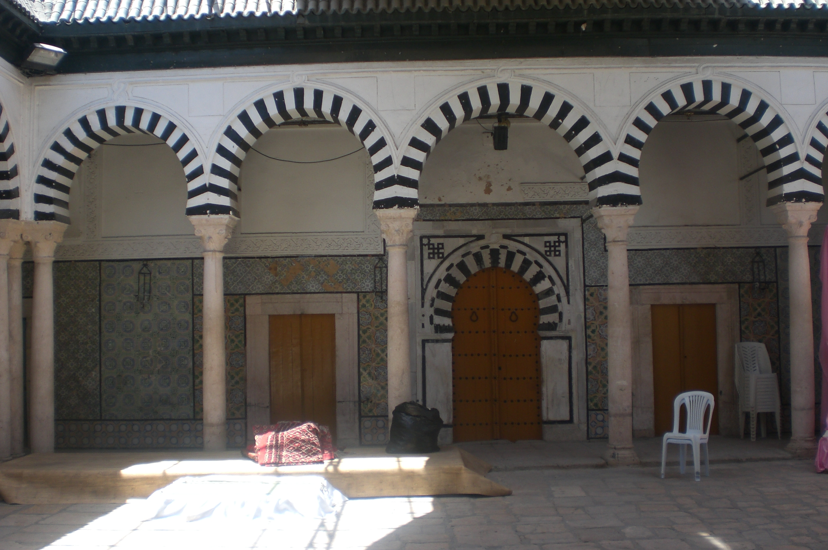 Interior of Bir Lahjar Medersa in Tunis